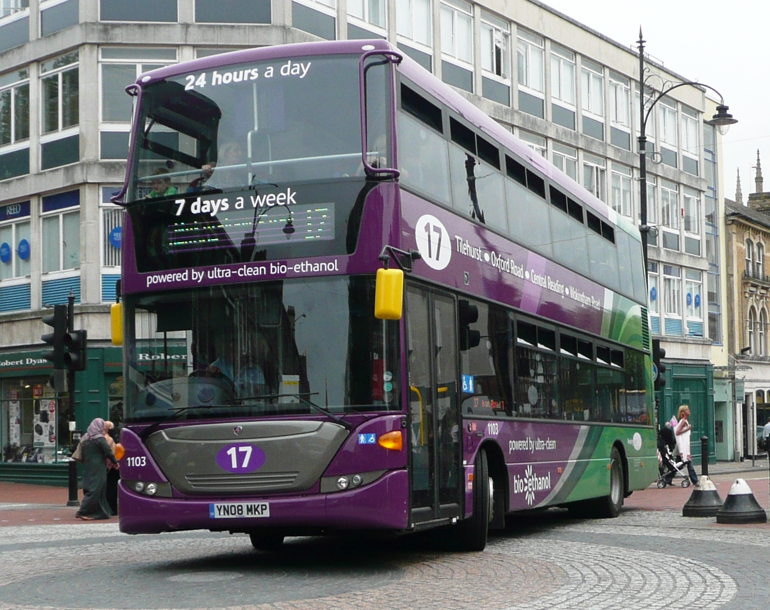 A Reading Transport bus on route 17 in central Reading. It is an ethanol-fuelled Scania CN270UD 4x2 EB OmniCity, registration mark YN08 MKP, fleet number 1103, in route 17 livery.